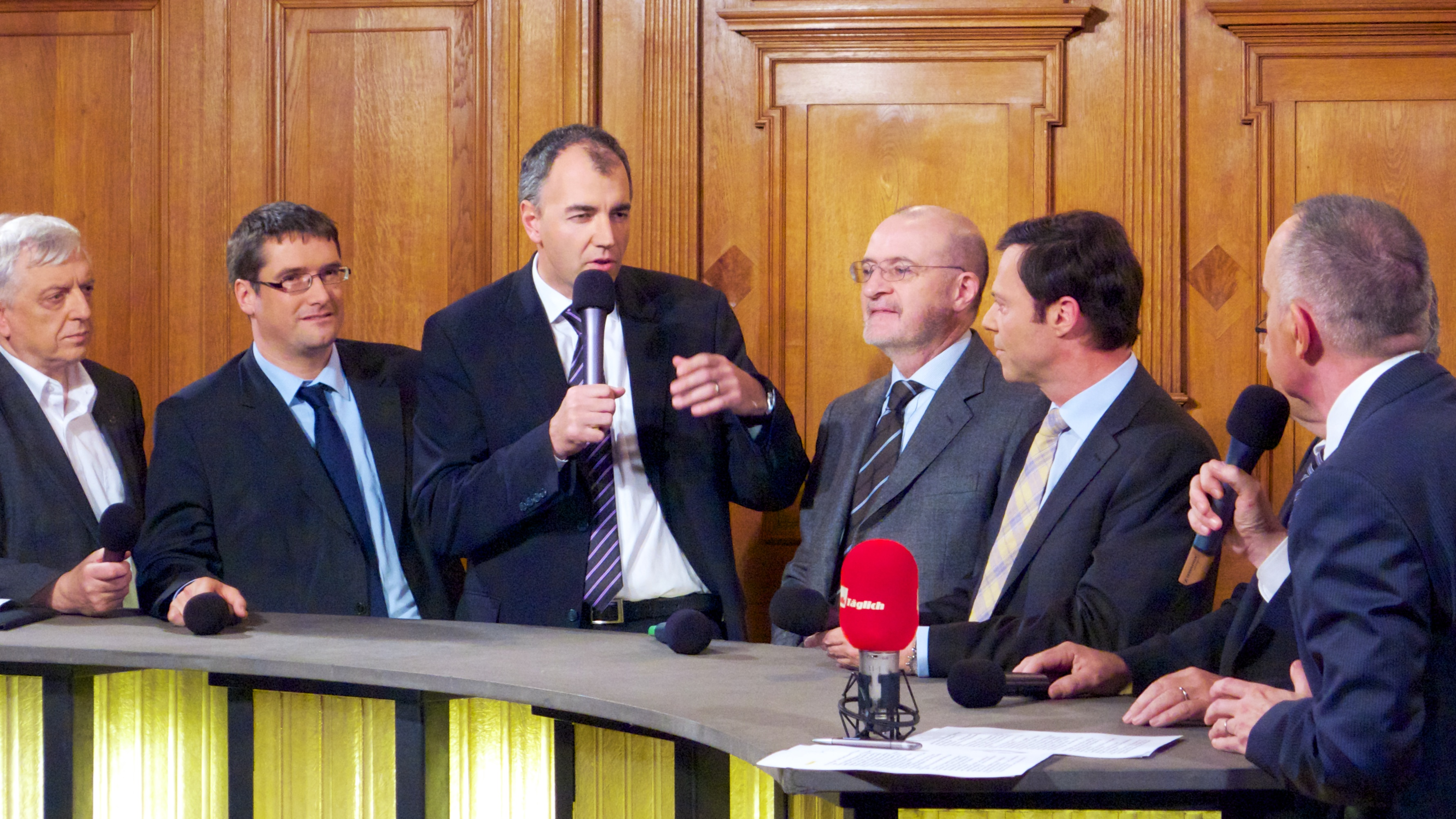 Swiss party presidents during a talk in the run-up to the elections of the Federal Council 2011. From the left to the right: Ueli Leuenberger (Greens), Christian Levrat (Socialdemocratic Party), Christophe Darbellay (Christian Democrats), Fulvio Pelli (FDP.Liberals), Christoph Mörgeli (member of the presidency of the Swiss People's Party, filling in for Tony Brunner), Hans Grunder (Conservative Democratic Party, hidden behind the talkmaster Markus Gilli).